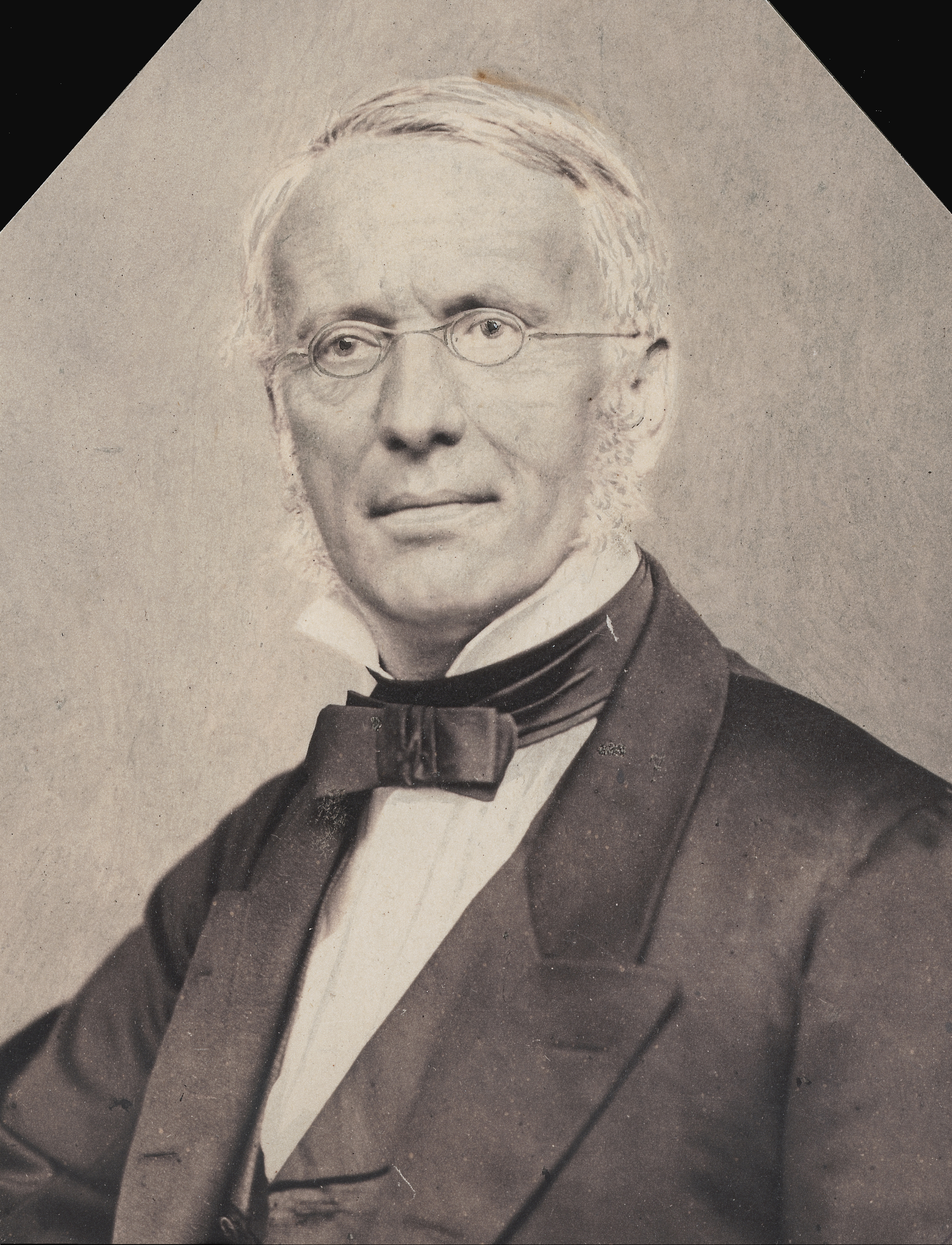 Portrait of Friedrich Miescher (1811-1887), photo